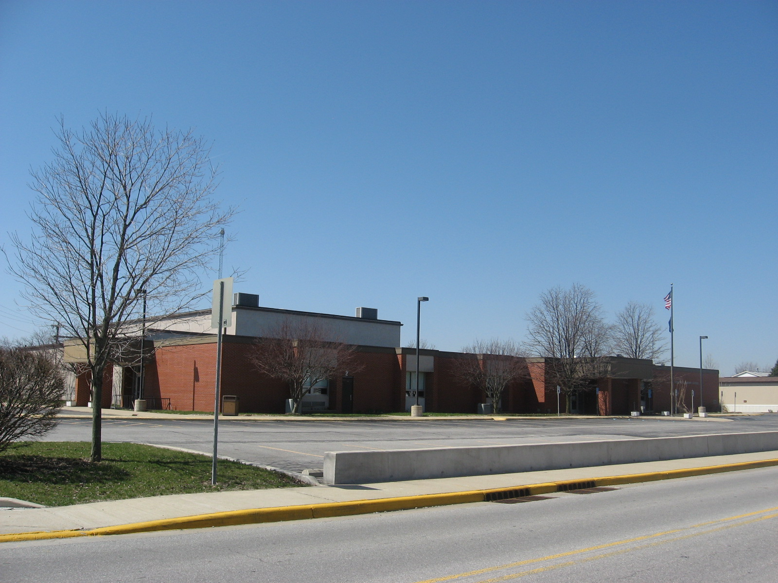 School